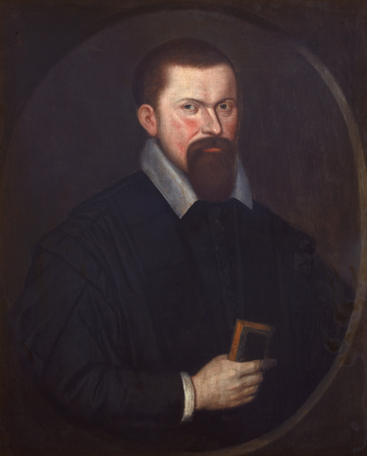 Portrait of Robert Rollock